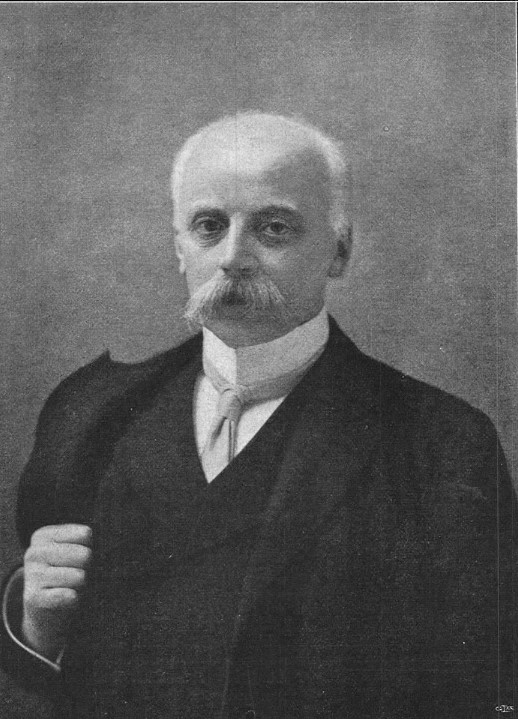 Swedish foreign secretary August Gyldenstolpe (1849–1928)